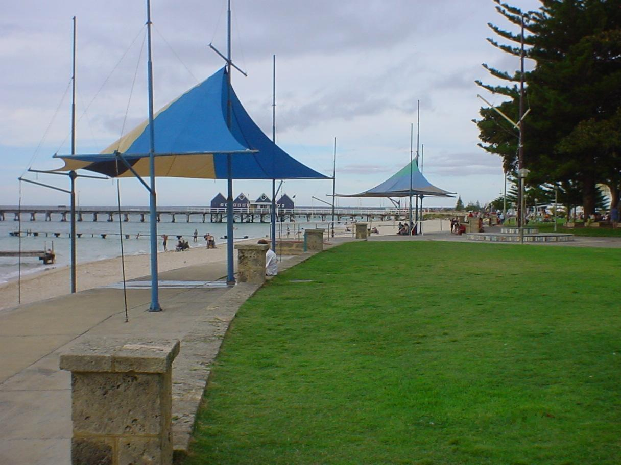 Busso foreshore